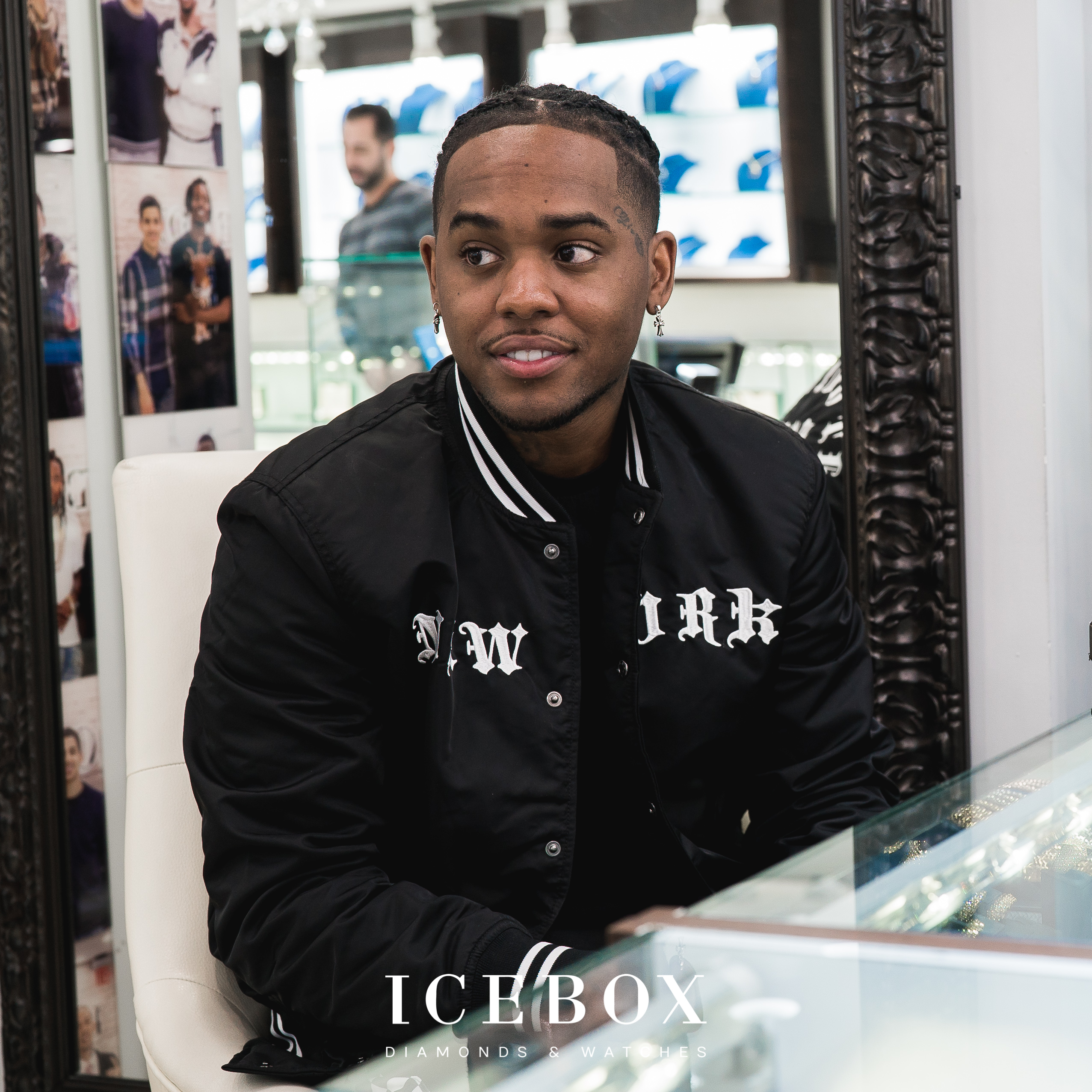 London at Icebox in 2017